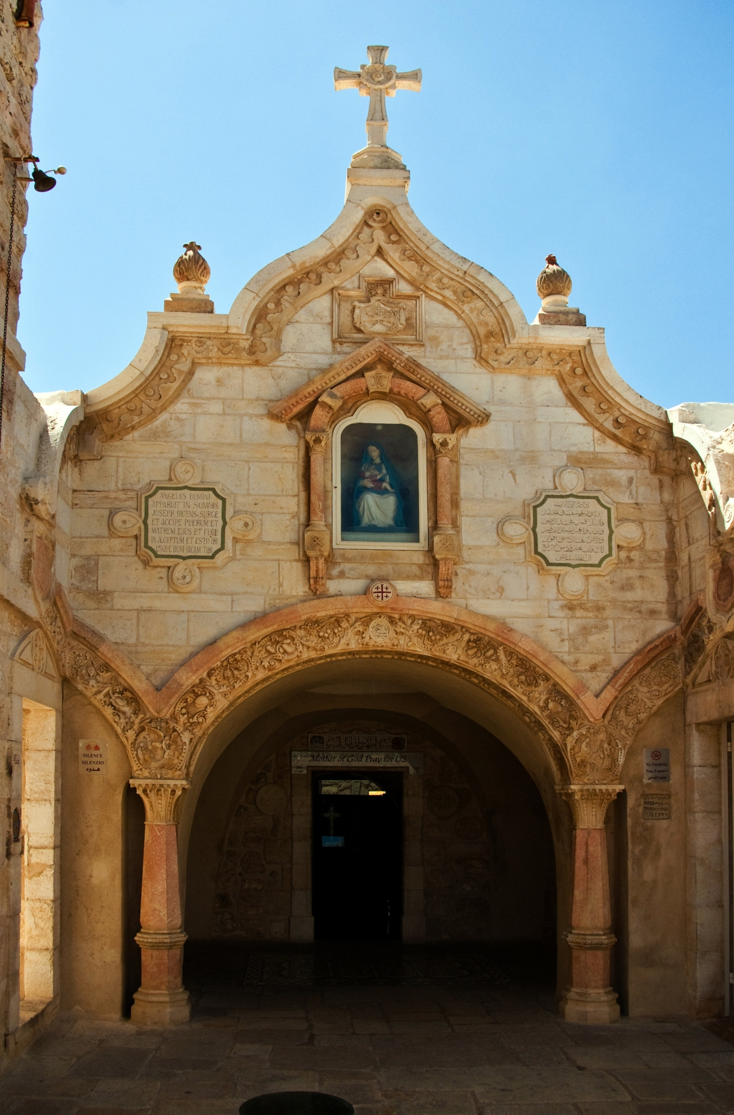 The Roman Catholic Franciscan Milk Grotto Chapel in Bethlehem